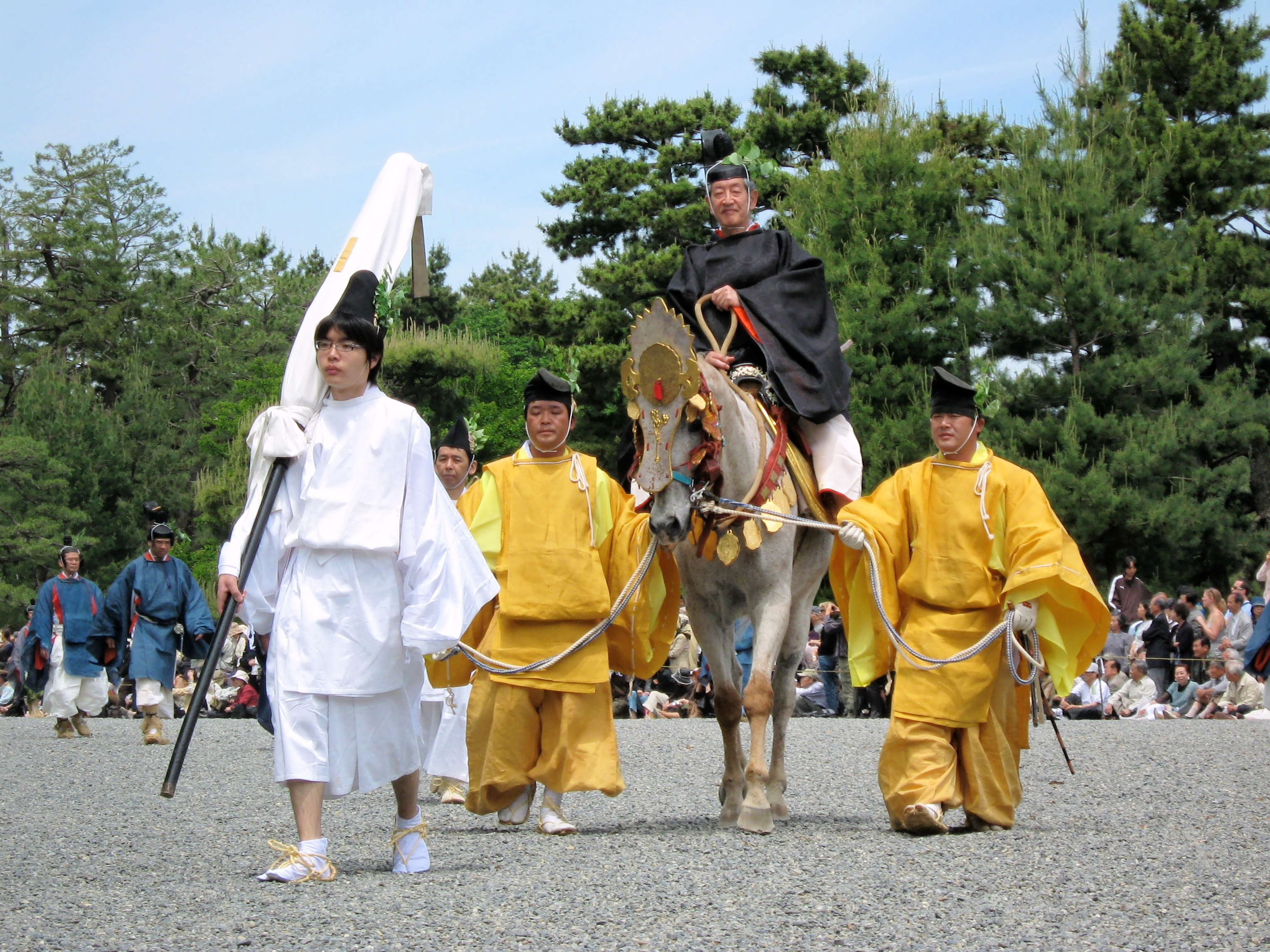 In Apr/May 2009, I took 15 days to walk all the way from Tokyo to Kyoto, roughly following the 546km long, ancient highway, the Nakasendo, alone. This picture was taken during the free week I had in Japan after the walk. Read about my preparations and my time in Japan at .